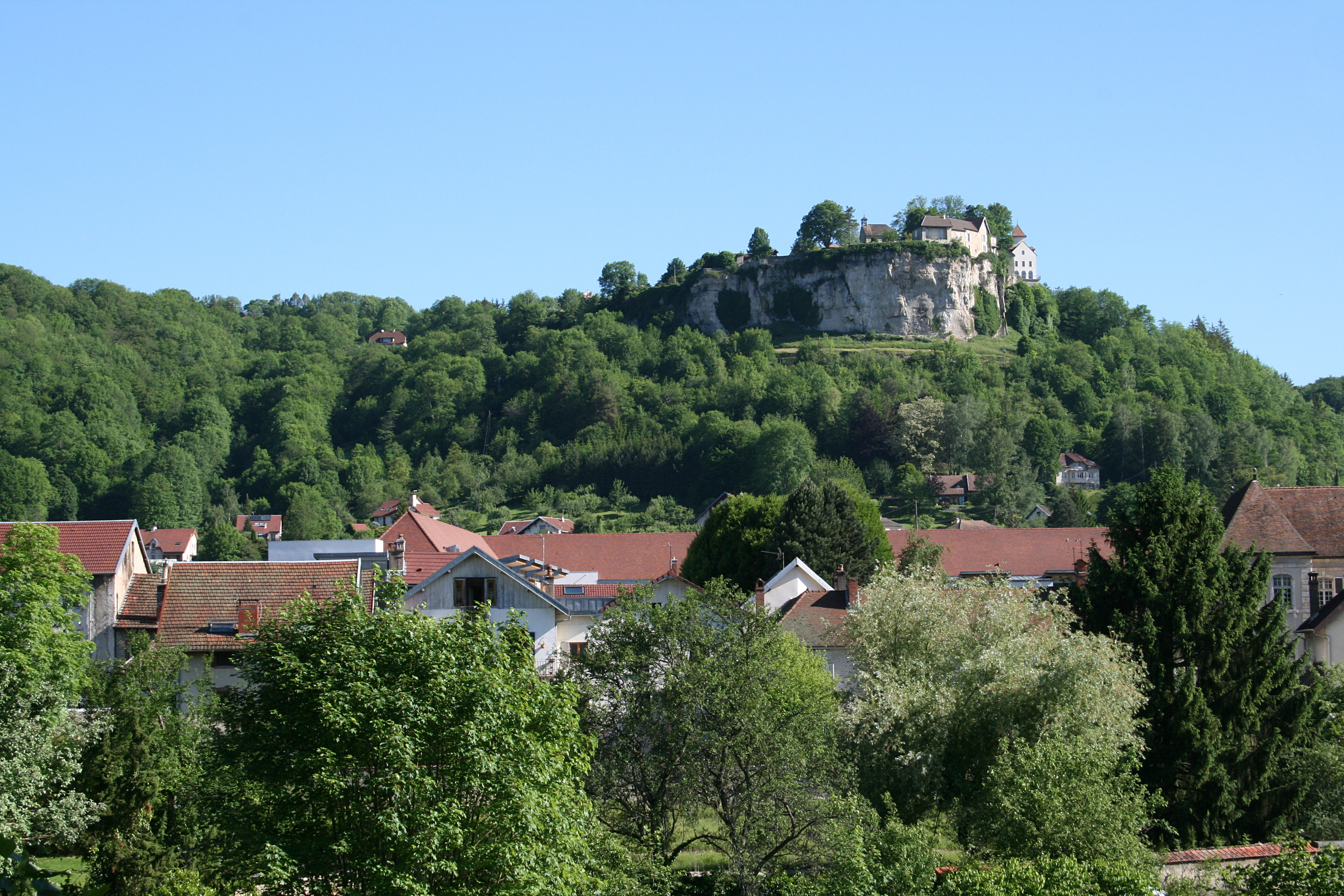 Ornans (Doubs - France), part of town at the foot of the cliff of "Castle".